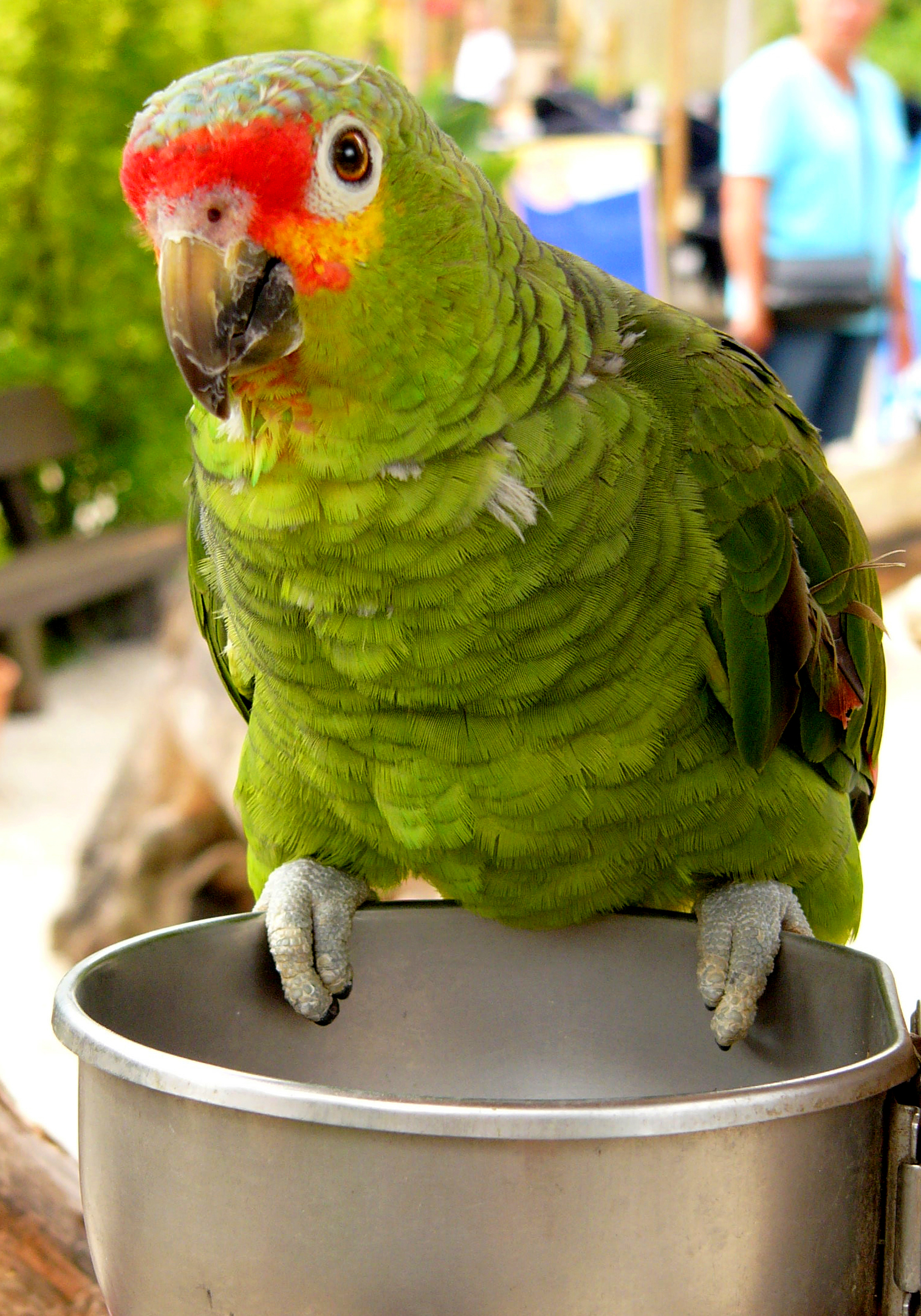 Red-lored Amazon or Red-lored Parrot.